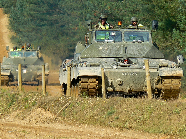 Modified tanks, Bovington training grounds, Dorset